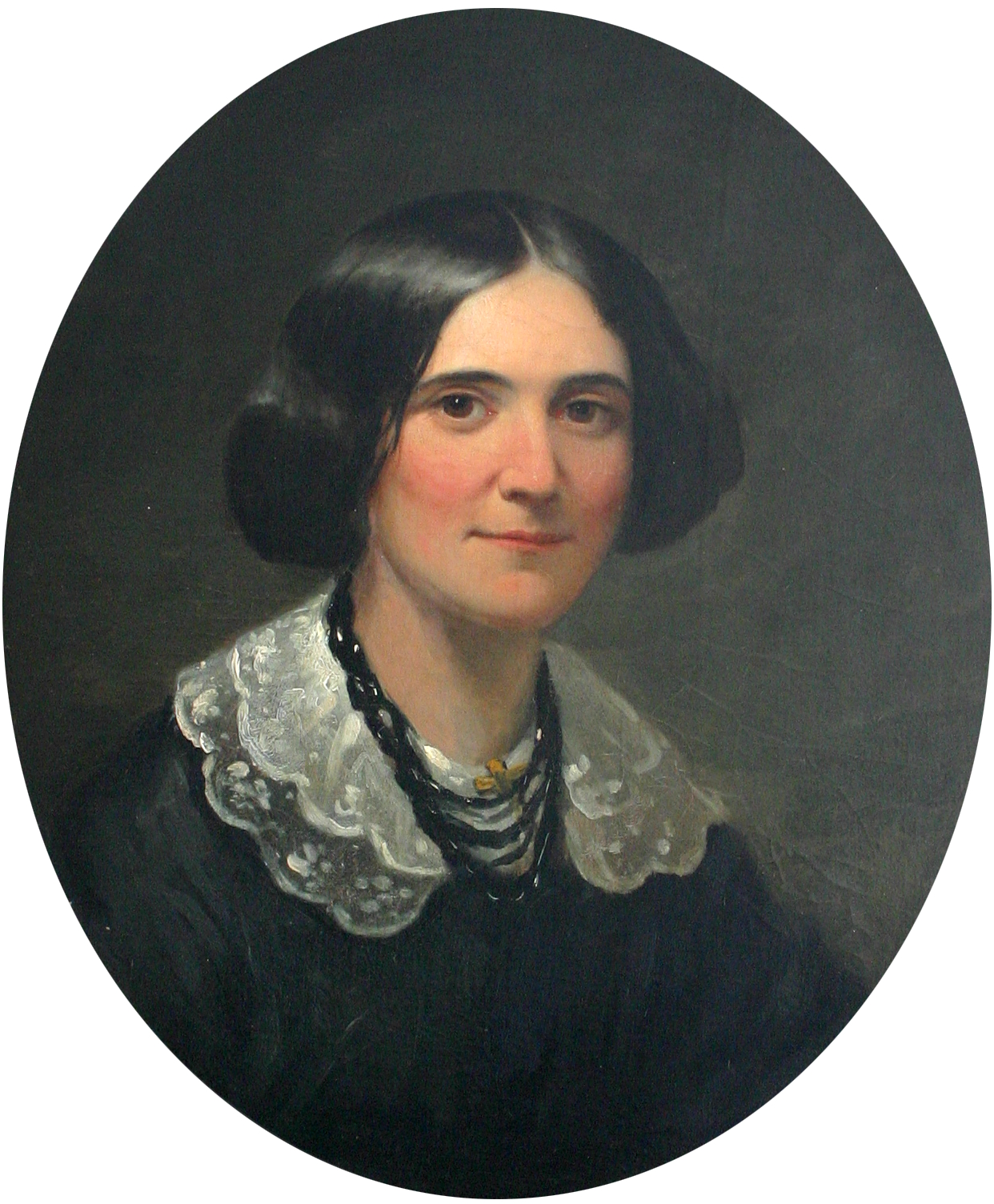 Portrait of Alice Cary that hangs in her childhood home in North College Hill, Ohio; painting made in New York City in 1850